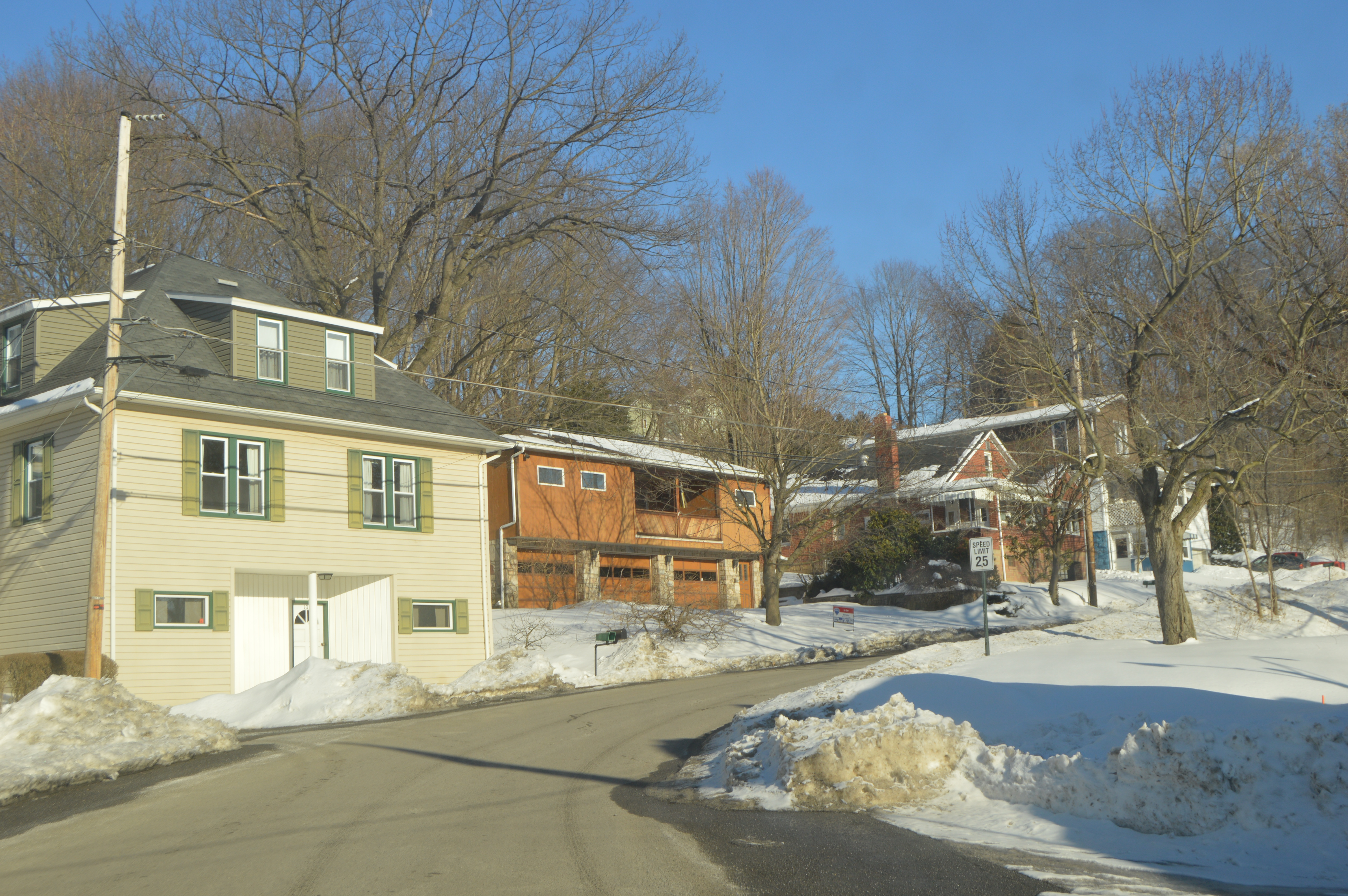 Buildings on the northeastern side of Mele Street at Parkhill in East Taylor Township, Cambria County, Pennsylvania, United States.